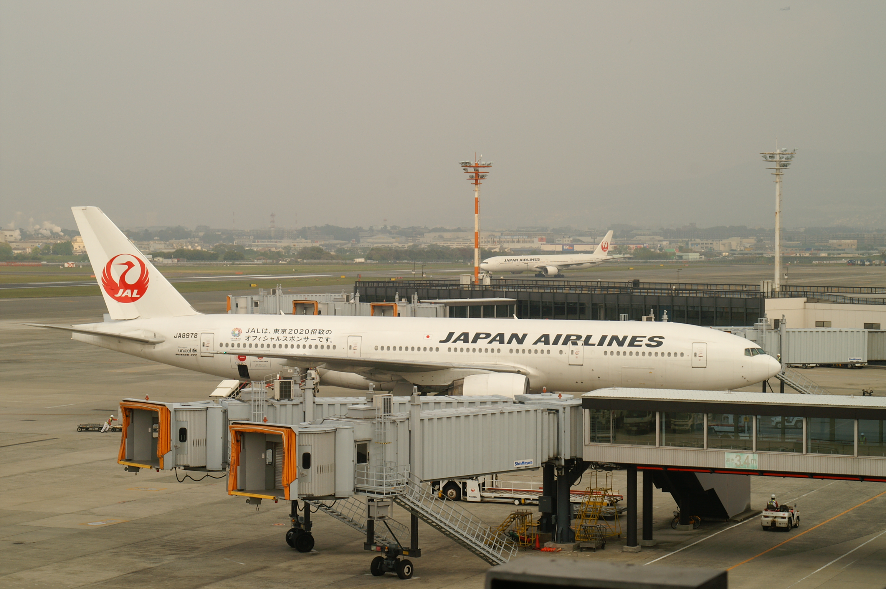 (2013/04/26 Osaka International Airport, JAPAN) [1]